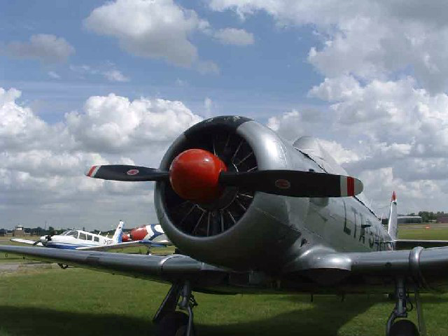 A T-6 Texan at the aircraft exhibit at North Weald Air Field.